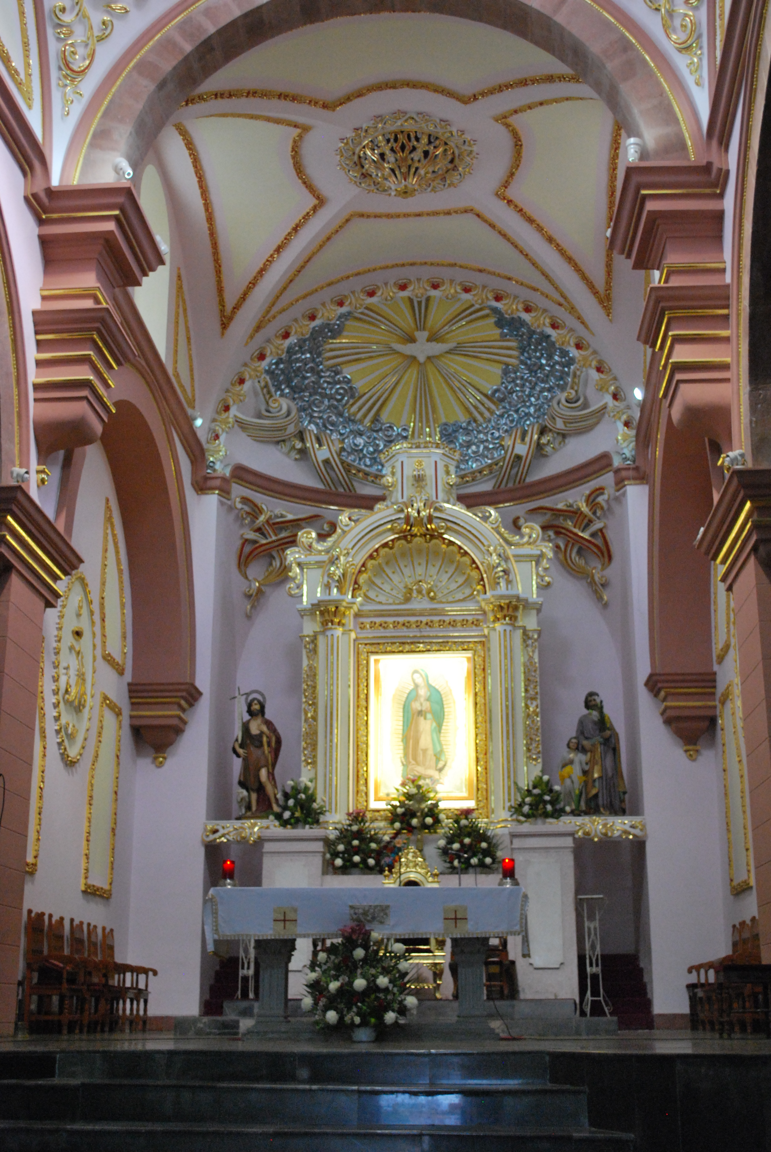 Main altar of the Cathedral of Huajuapan in Huajuapan, Oaxaca